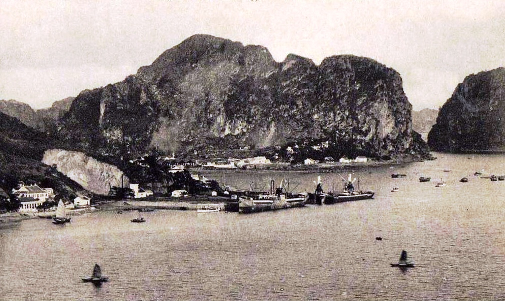 “Hongay — the coal loading port”, Cẩm Phả in 1917